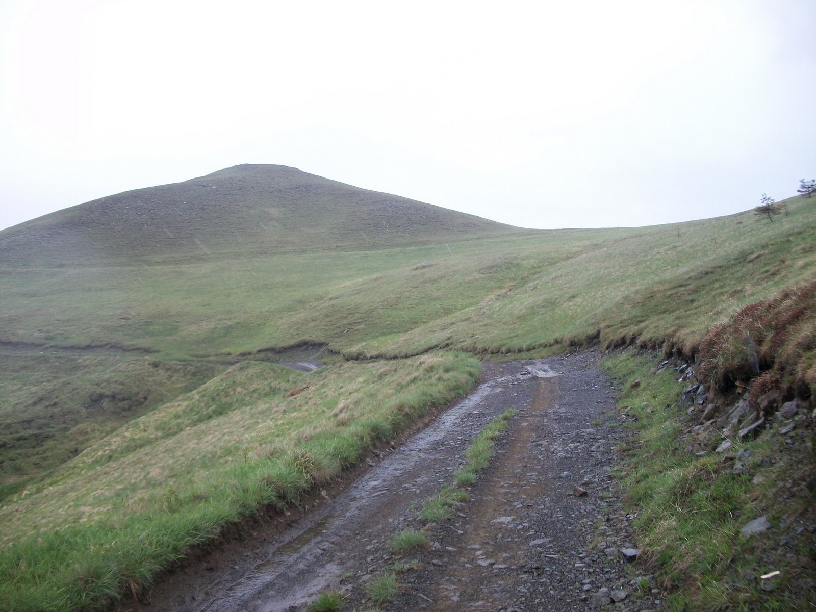 Photos from Heroid Shehu for Wikimedia Commons. Original Filename "Heroid_Shehu/Bajgore, Maja e Bajrakit/100_0794.jpg"